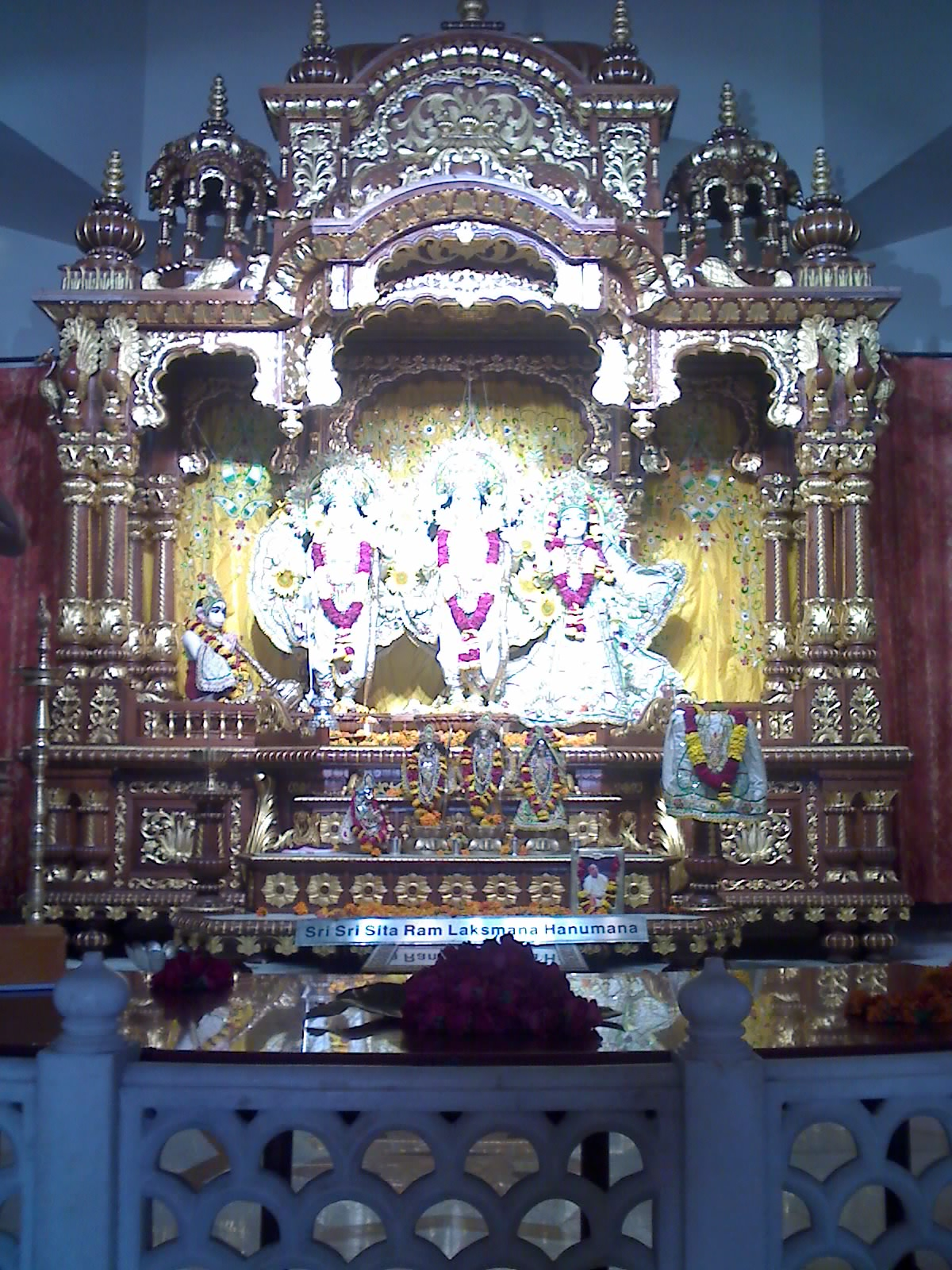 ISCKON temple garbha griha foto